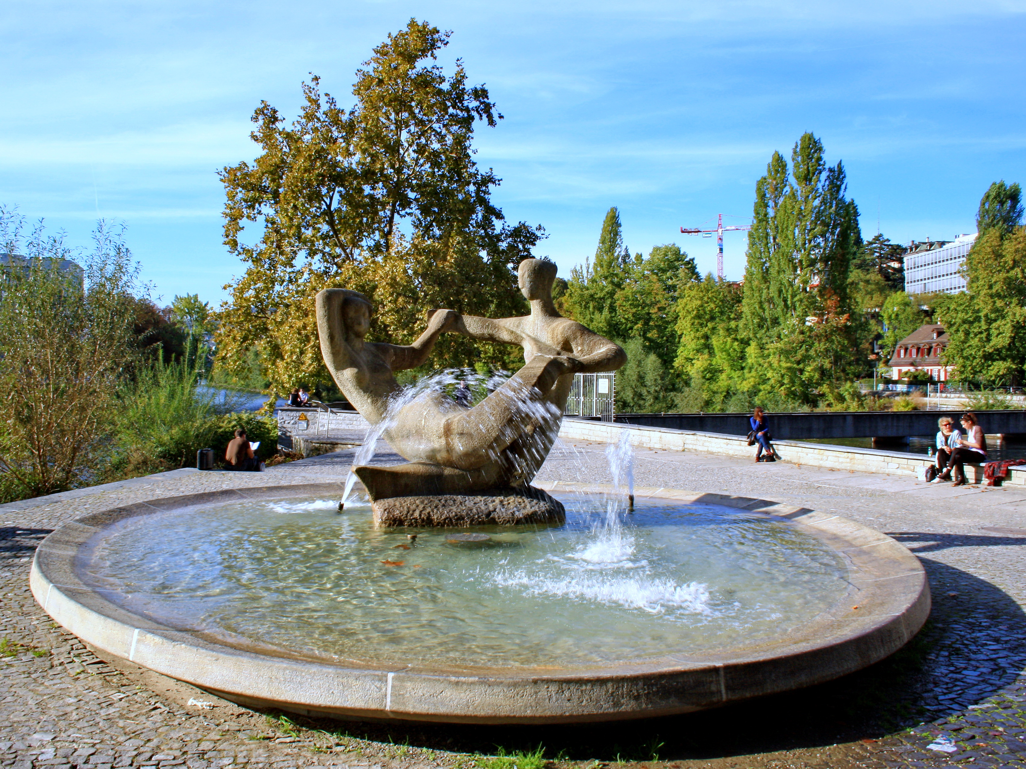 James-Joyce-Plateau fountain at Platzspitz park in Zürich (Switzerland)